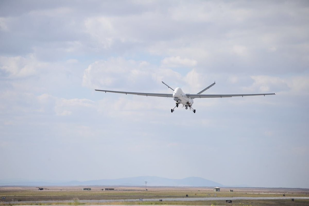 ANKA-S MALE